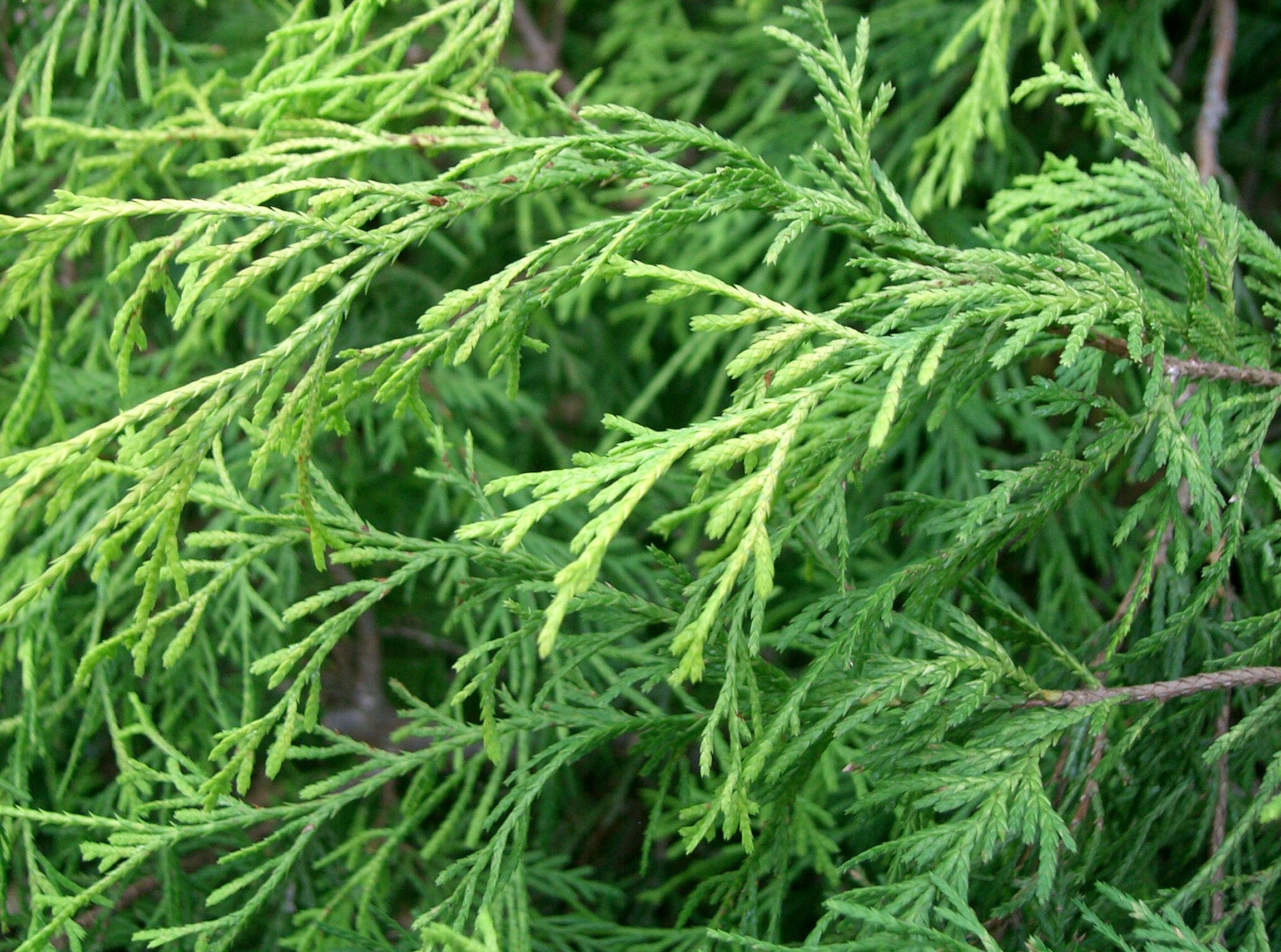 Chamaecyparis pisifera 'Filifera Aurea'